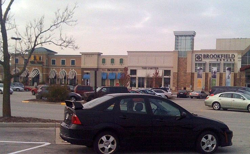 Shopping Mall in Brookfield, Wisconsin